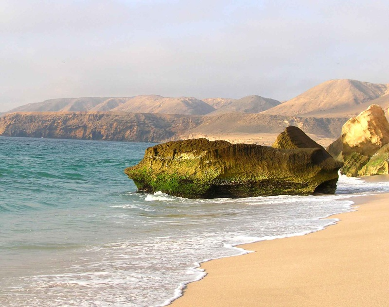 Also known as the 'Turtle Beach', this is one of the most popular tourist spots in Oman.